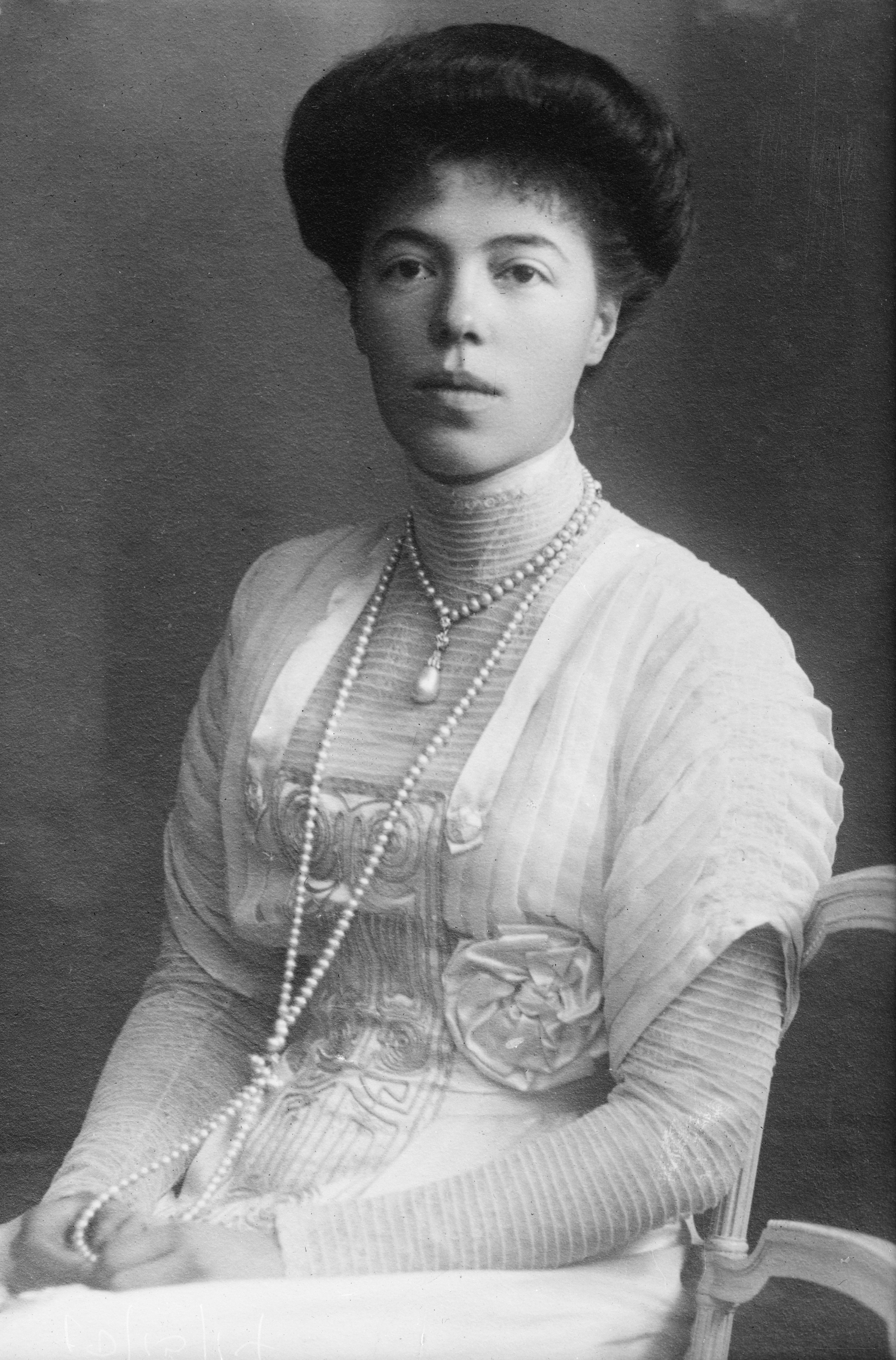 Portrait photograph of Grand Duchess Olga Alexandrovna of Russia